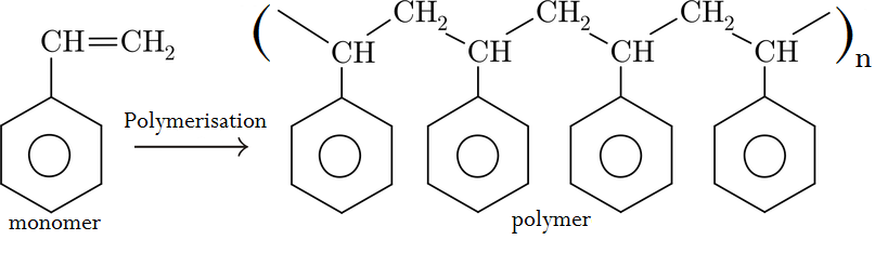 == Polymerization of monomer (styrene) to polymer (polystyrene)